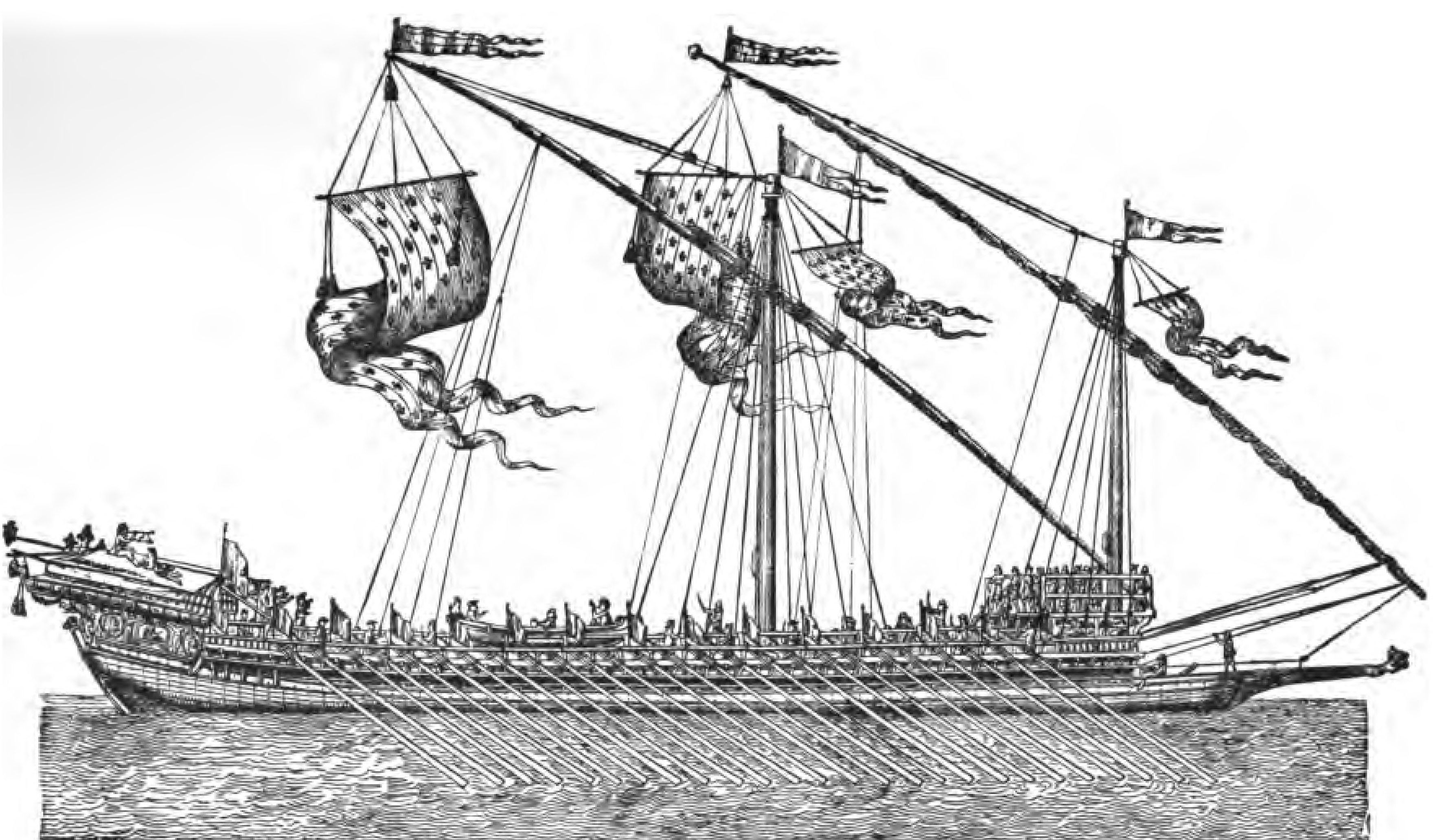 Galley of the 16th century, found in The Story of the Barbary Corsairs' by Stanley Lane-Poole, published in 1890 by G.P. Putnam's Sons.